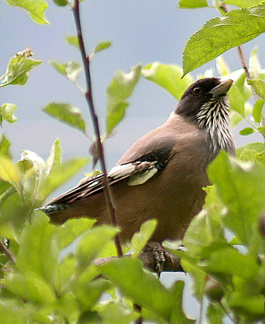 Black-headed Jay Garrulus lanceolatus at 8000 ft. in KulluDistrict of Himachal Pradesh, India.